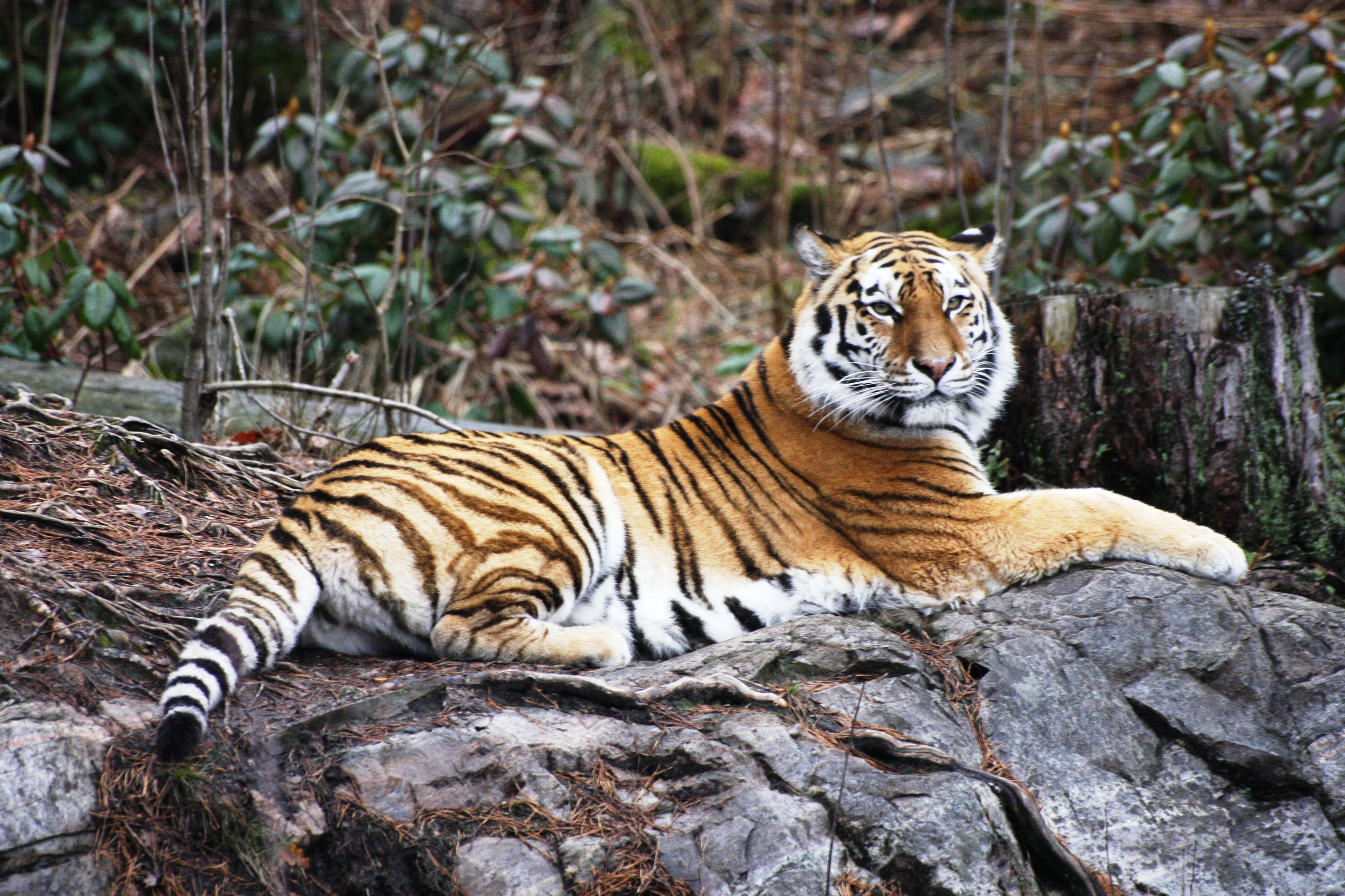 Panthera tigris in Kristiansand Zoo (Kristiansand Dyrepark), Vest-Agder county, Southern Norway.